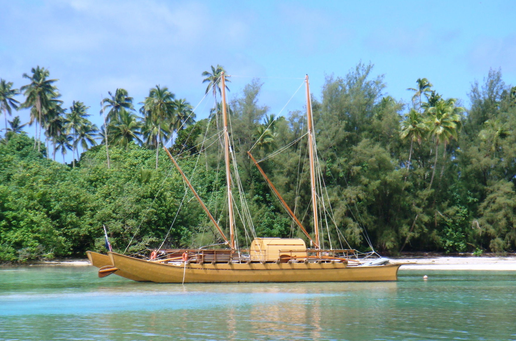 Large traditional double-hulled vaka in Rarotonga. Not sure where it was built.